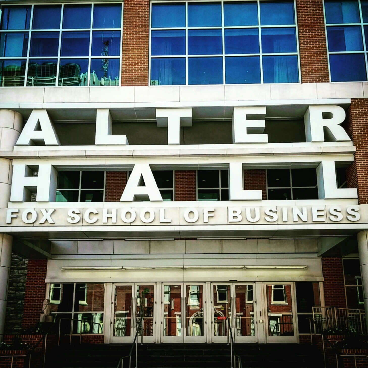 The main entrance to Alter Hall, an academic building at Temple University. Alter Hall is home to the Fox School of Business.